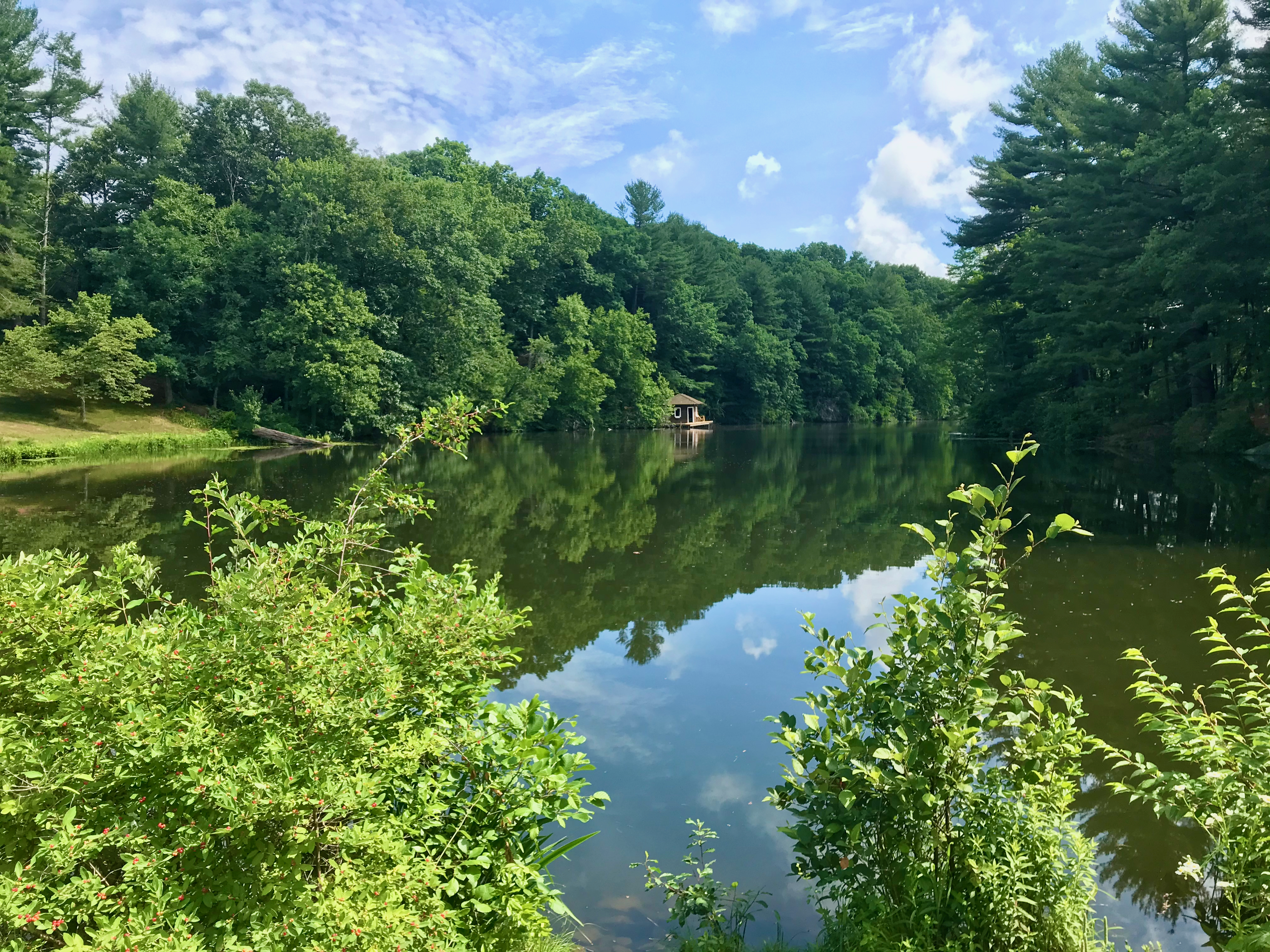 Case Pond in the Case Mountain Recreational Area in the Town of Manchester, Connecticut. Case Pond was once part of an early industrial site of a paper mill and bottling plant.